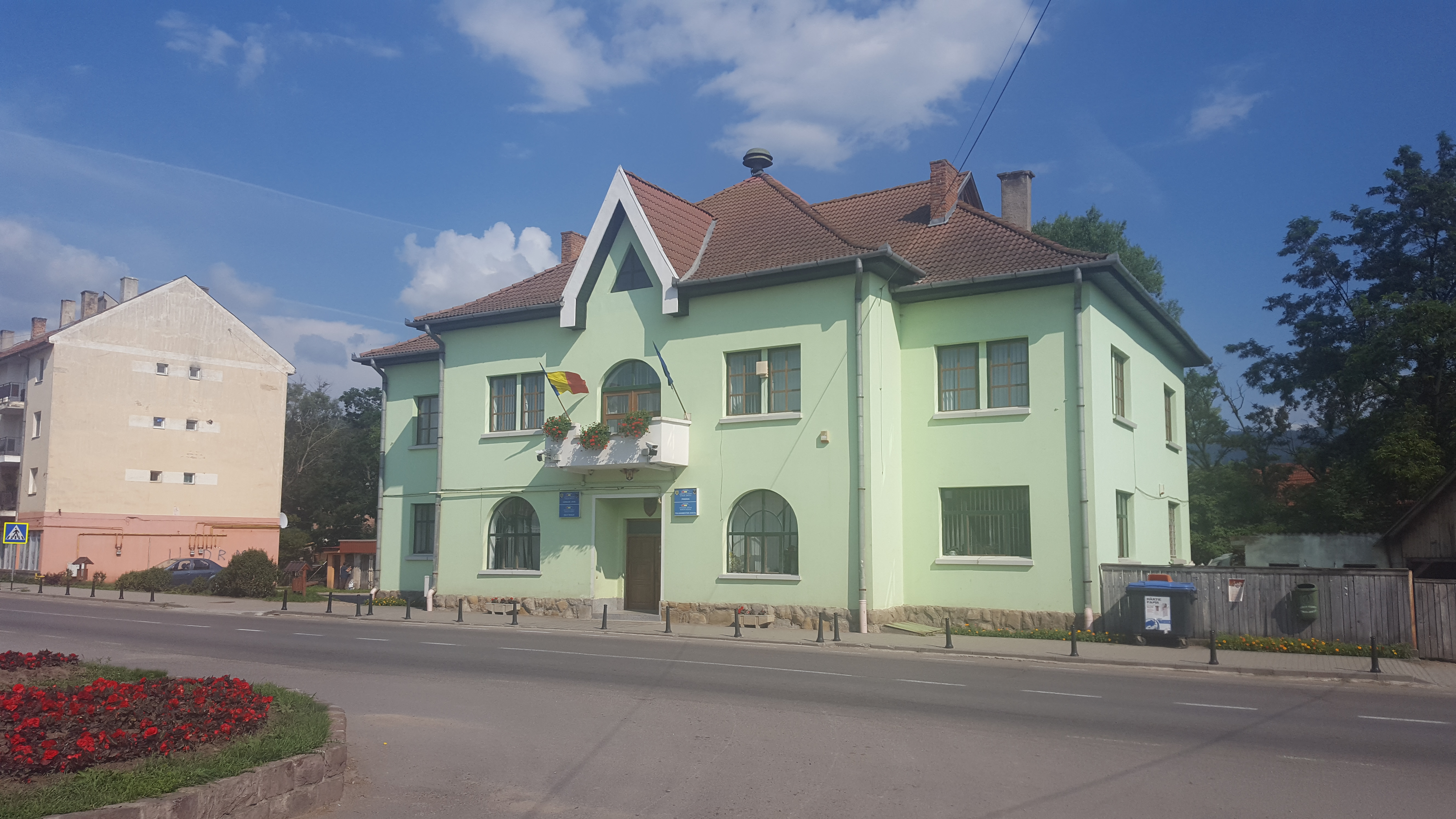 City hall in Brețcu, Romania